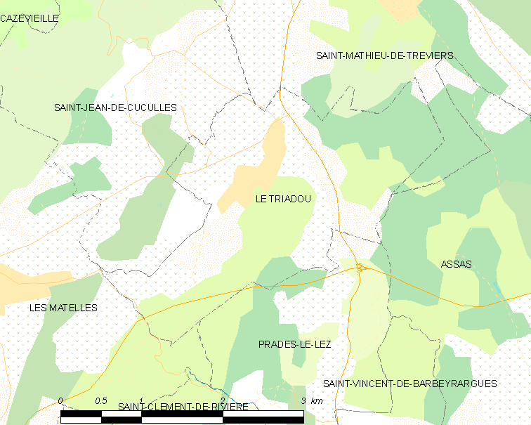 Map commune FR insee code 34314.png - Le Triadou